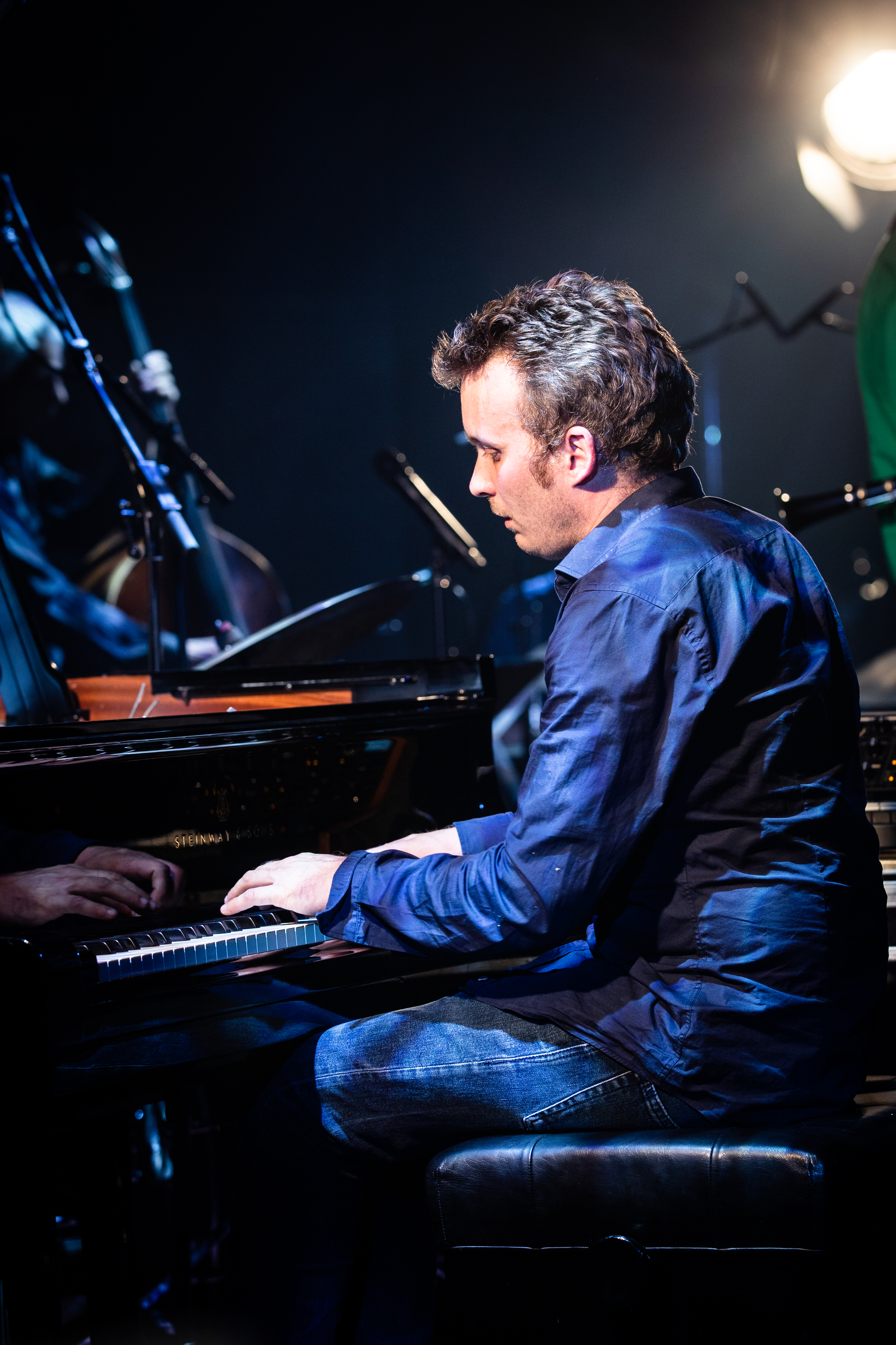 Jazz pianist Philip Zoubek at the Moers Festival 2018